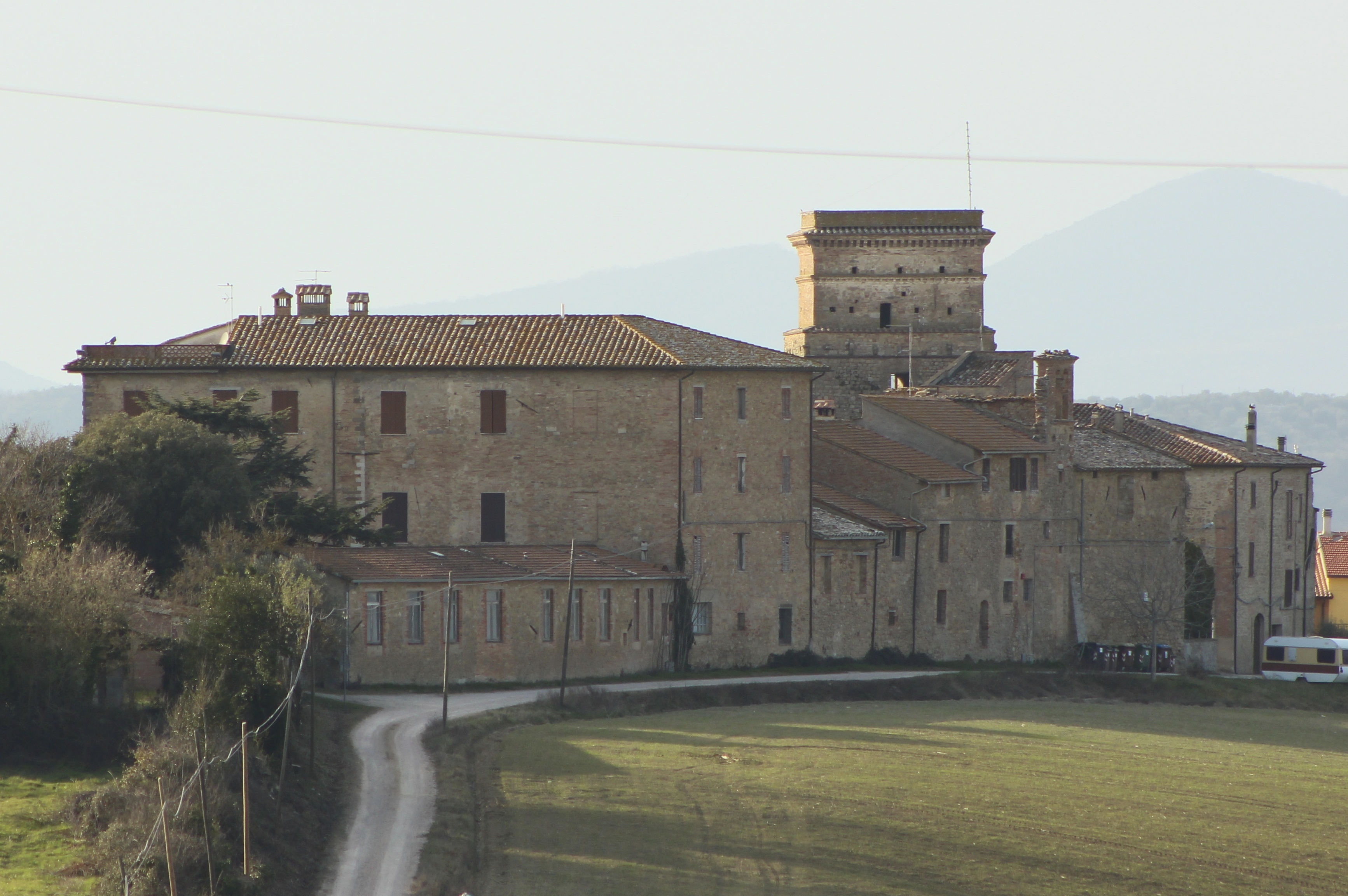 Sant'Elena, hamlet of Marsciano, Province of Perugia, Umbria, Italy